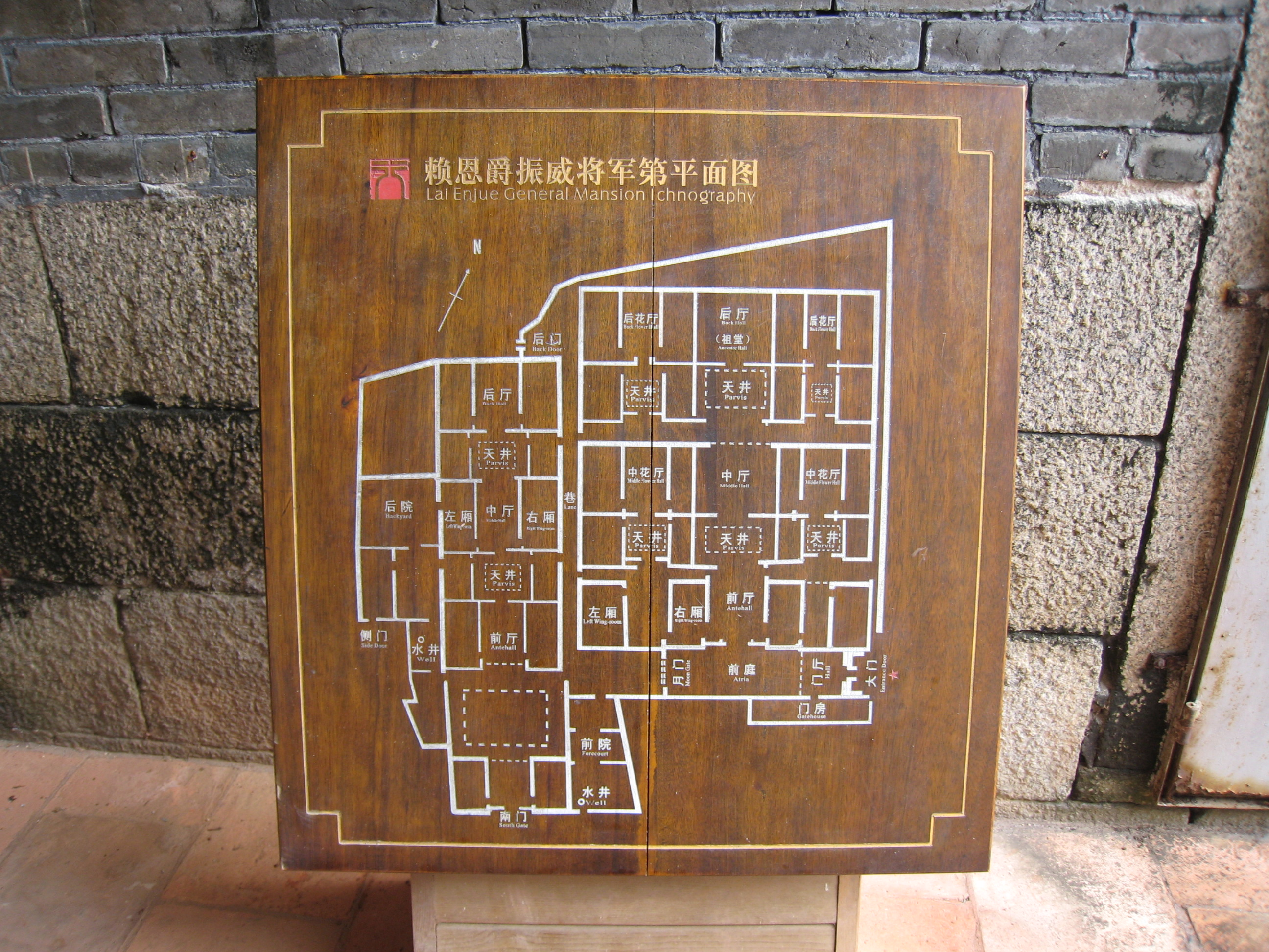 wooden plank with the map of Laifu